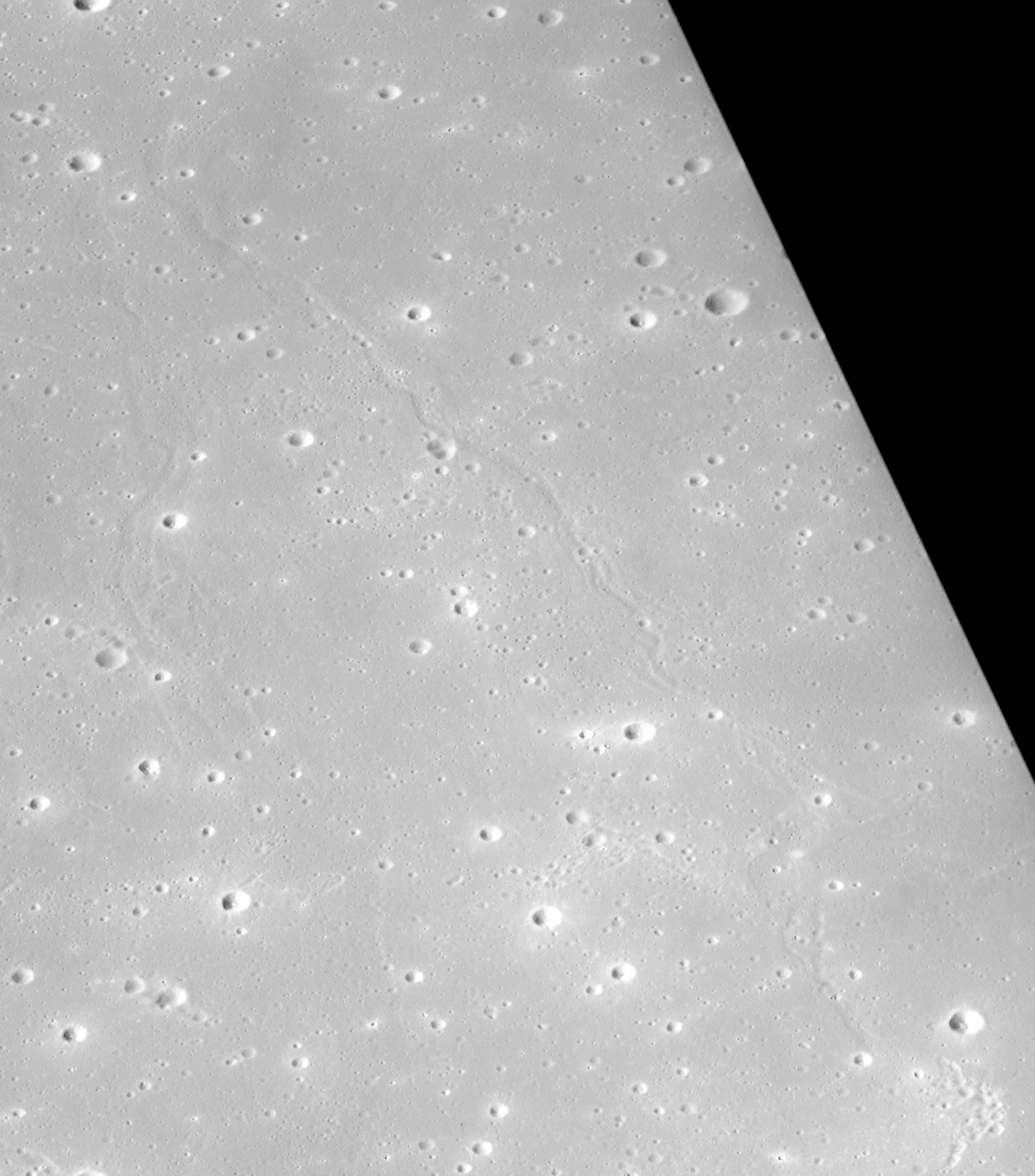 Oblique view of Dorsum Thera, facing south, on the moon. Taken by Apollo 15 panoramic camera.